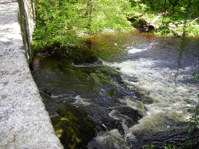 Falls on Palnure Burn at Craignine Bridge